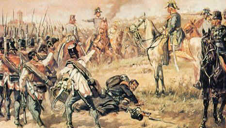 Fieldmarshall Radetzky at the battle of Novara